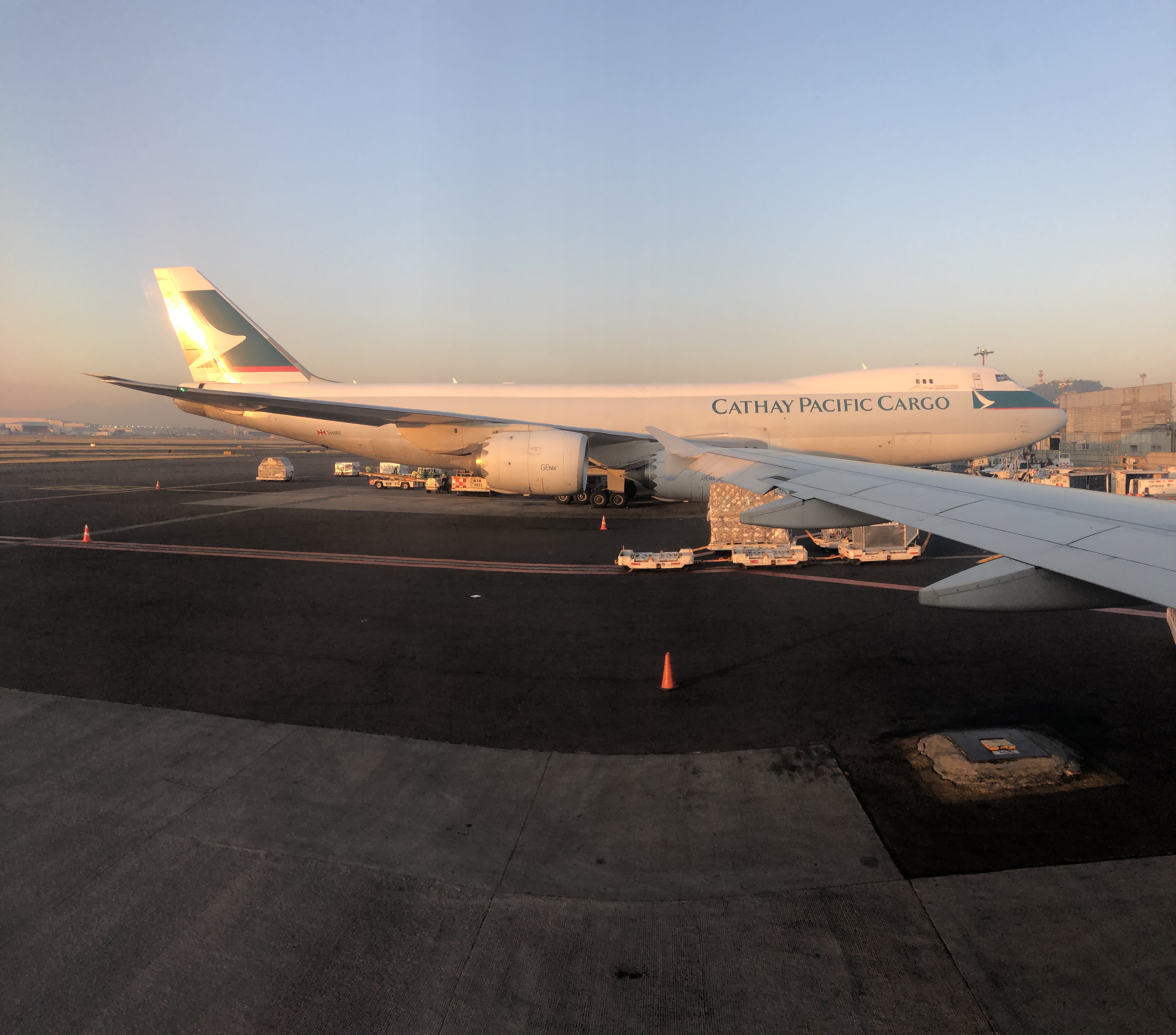 Cathay Pacific Cargo Boeing 747-8F at Mexico City International Airport.